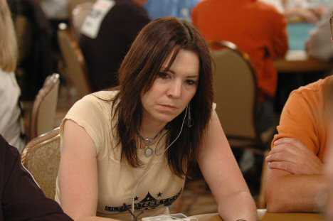 Annie Duke in 2005 World Series of Poker (WSOP) at the Rio, Las Vegas.